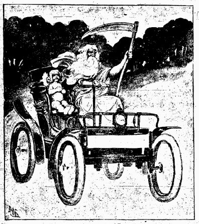 Cartoon in "New Orleans Bee", 1 January, 1910, showing old man and baby in automobile, symbolizing the arrival of the New Year.